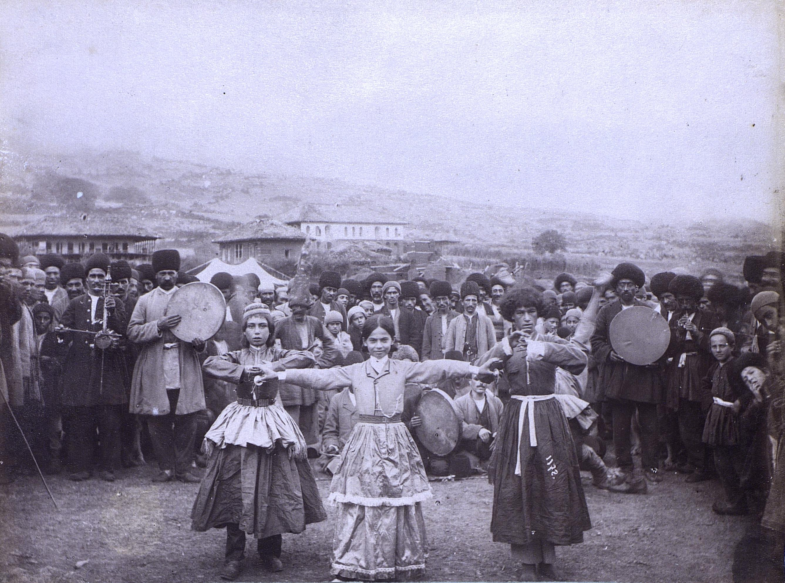 Dances of Talysh people in Iran